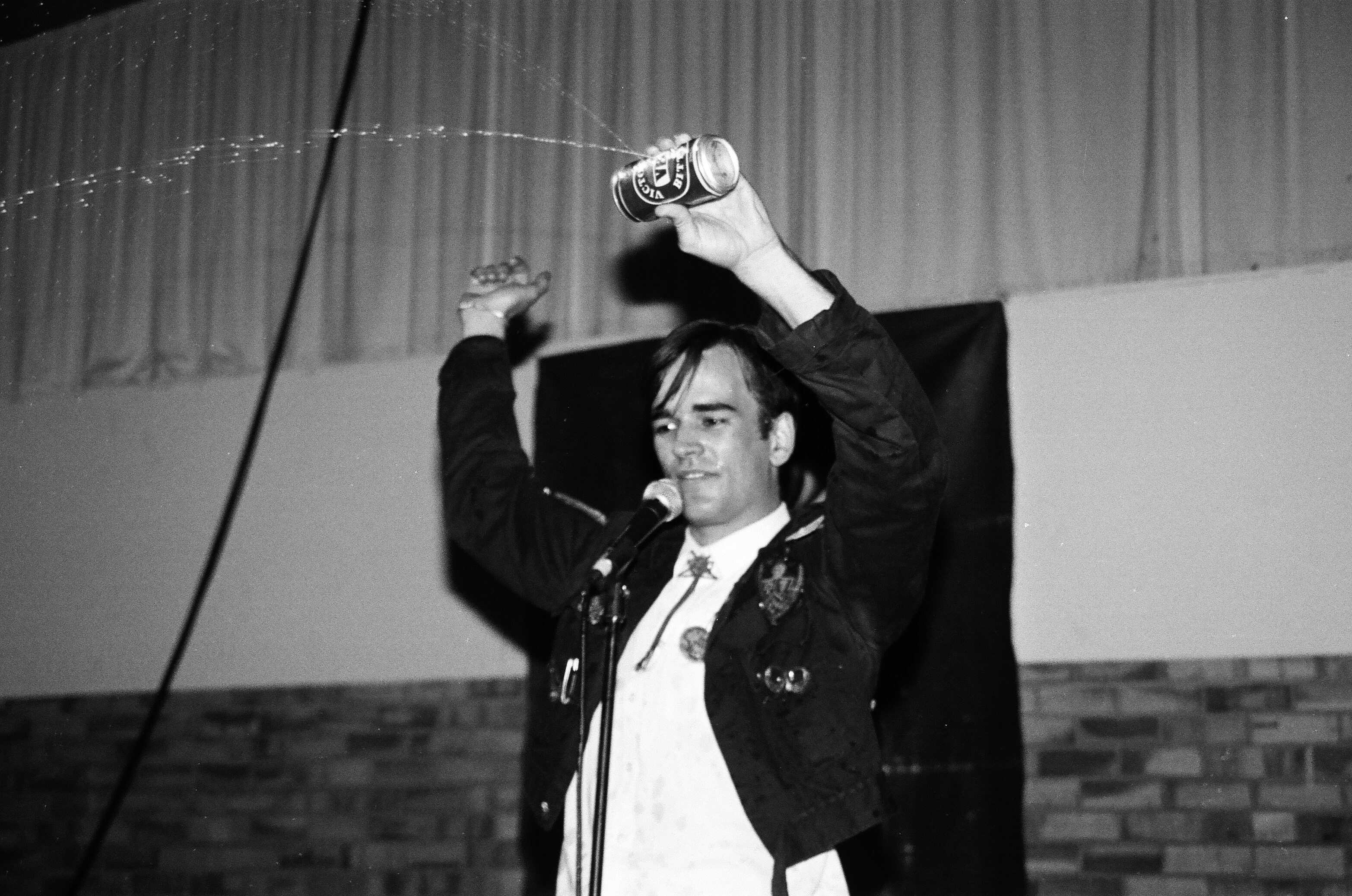 Comedian Tim Ferguson performing with the Doug Anthony All Stars at the University of Tasmania in April 1994.